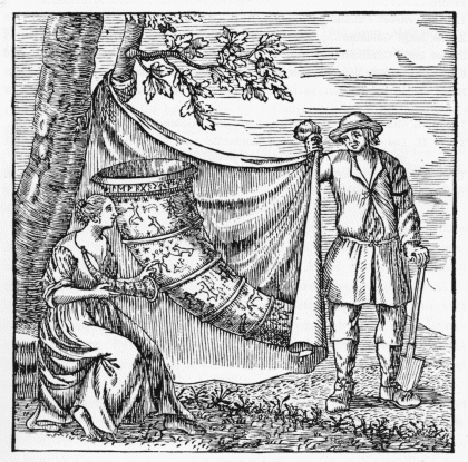 Illustration from the title page of J.R.Paulli's 1734 treatise on the Gallehus horns, reprinted in S.A. Andersen, "Guldhornene fra Gallehus", 1945, immediate source ancient-astronomy.dk.